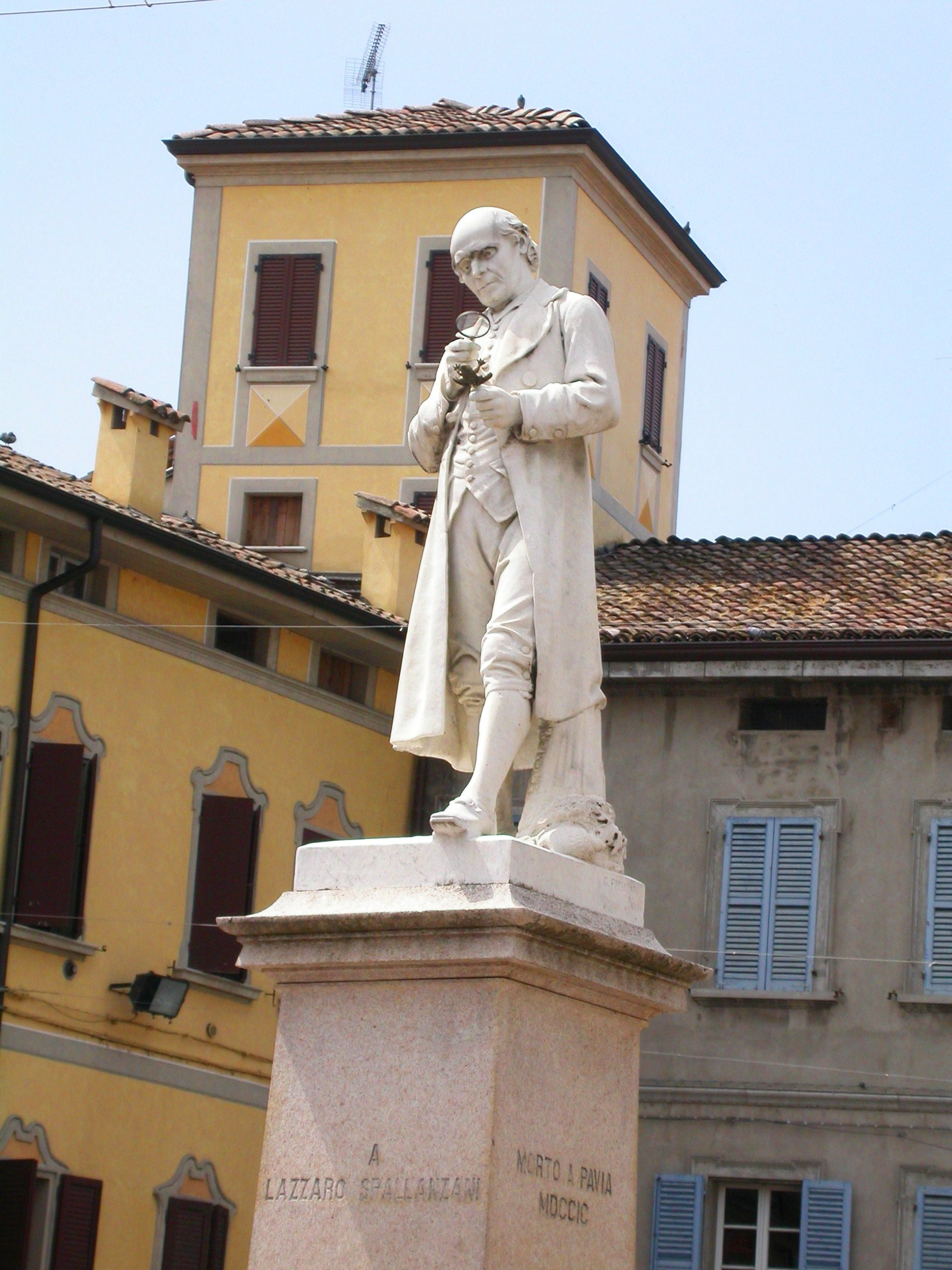 Monument in Scandiano of the scientist Lazzaro Spallanzani, who lived and worked in Scandiano. The monument was inaugurated on Oct 21 1888, and is a work by sculptor Guglielmo Fornaciari (1859-1930)